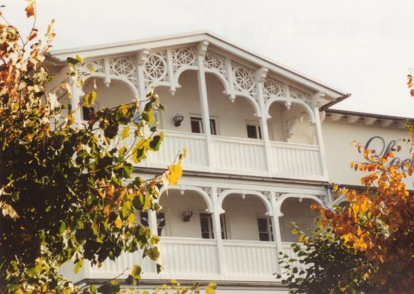 Seaside Architecture in Binz, Rügen, Germany